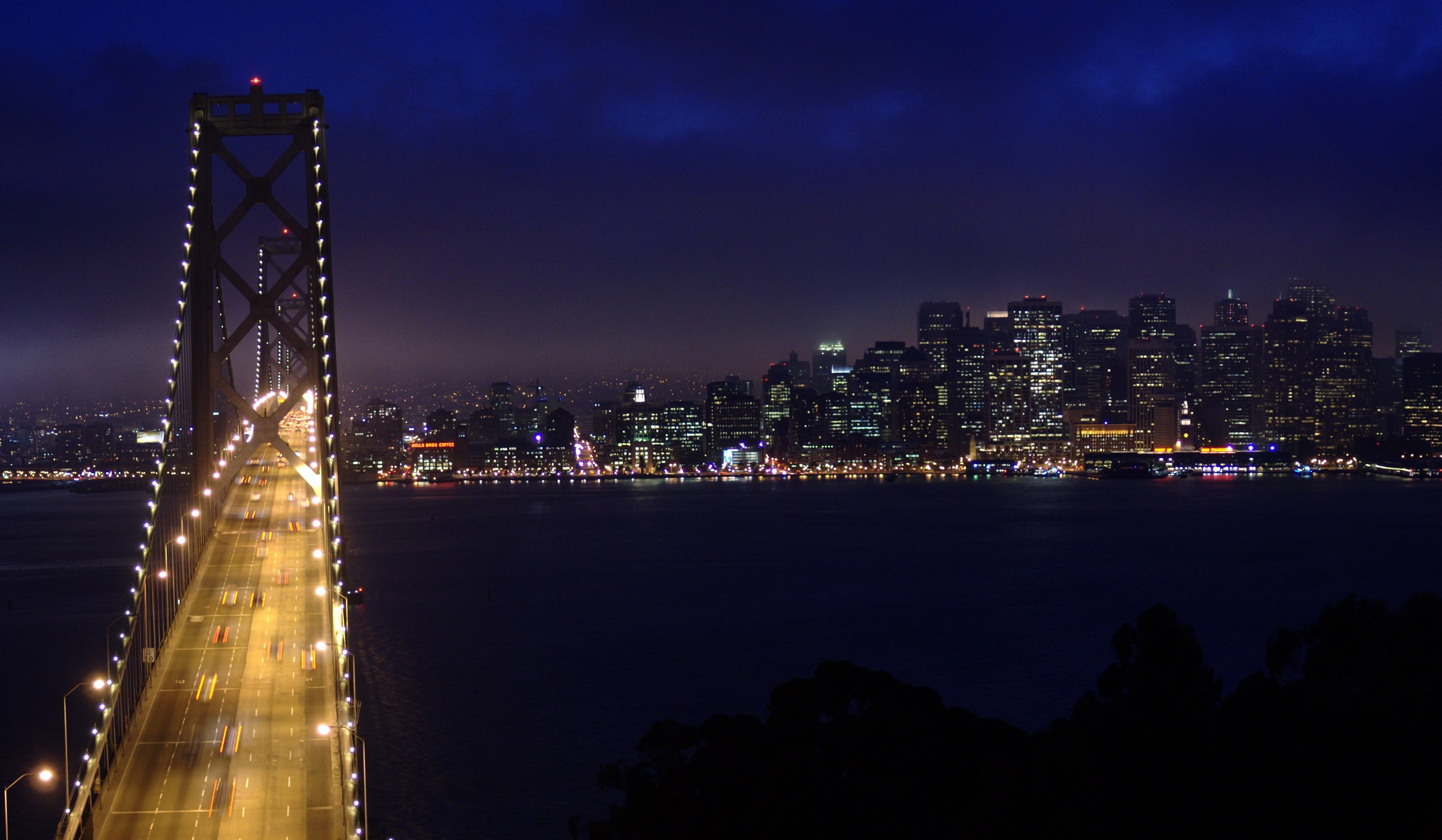 Bay Bridge and downtown San Francisco as seen from Yerba Buena Island